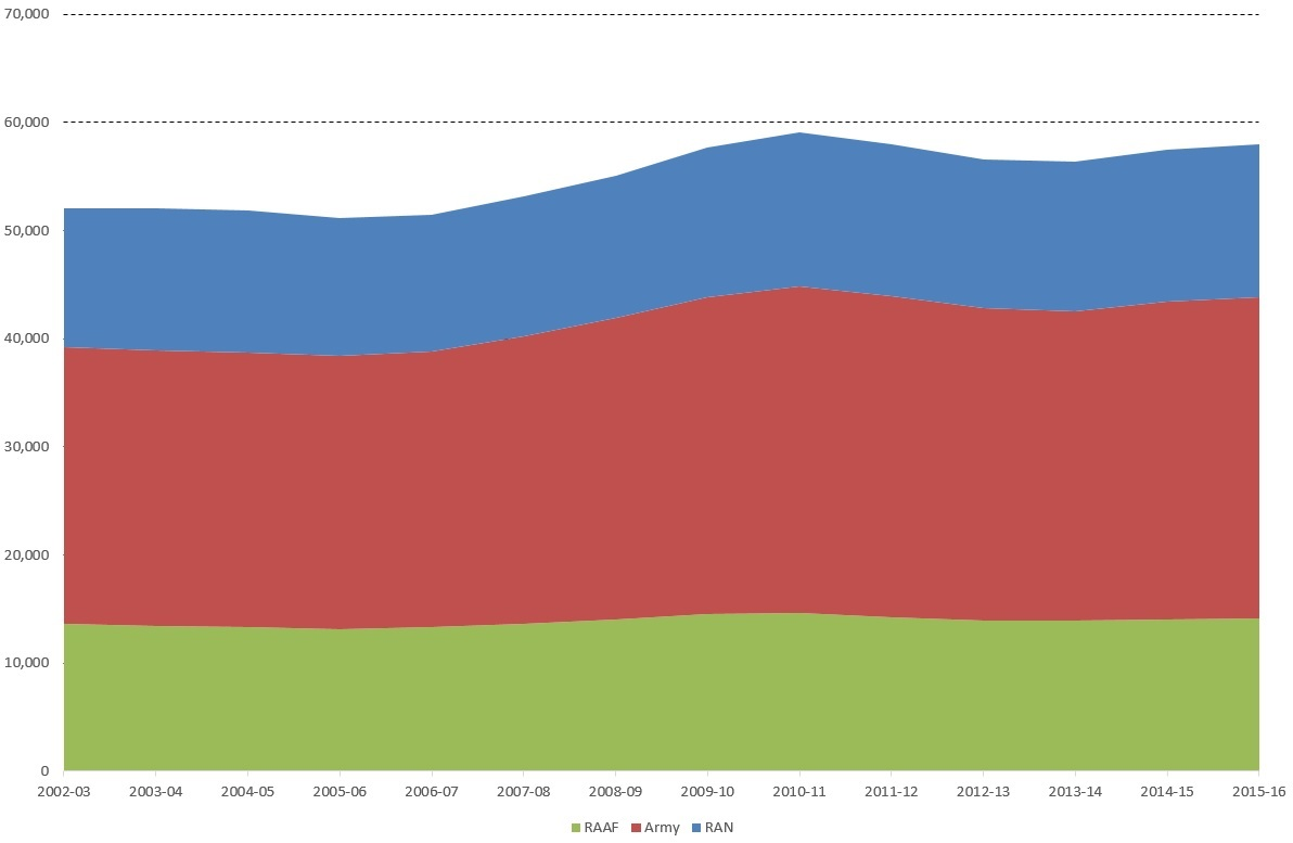 The average permanent force numbers of each of the Australian Defence Force's three services between the 2002-03 and 2015-16 financial years. These data were sourced from page 61 of: Thomson, Mark (2016). The Cost of Defence : ASPI Defence Budget Brief 2016-17. Canberra: Australian Strategic Policy Institute.